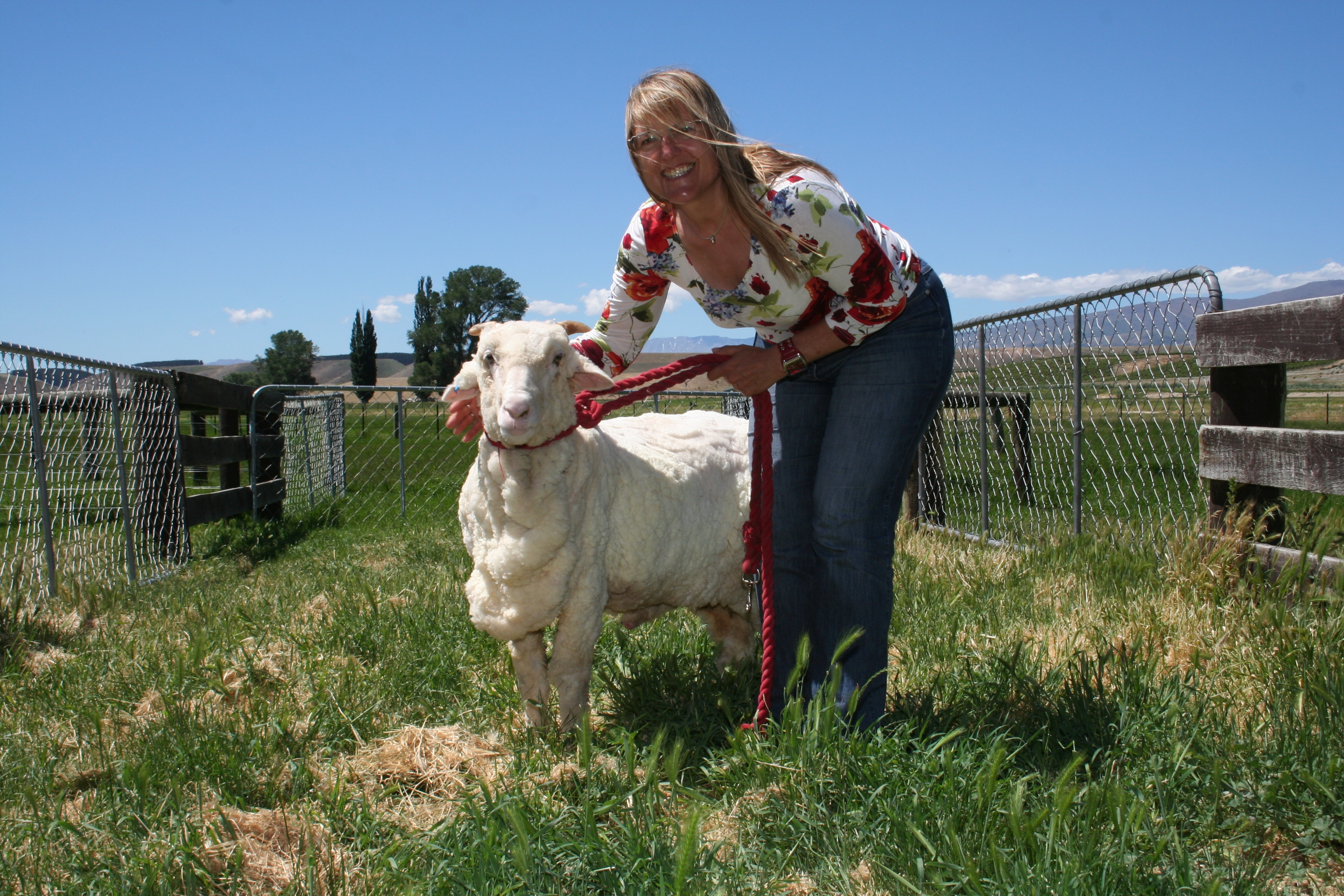 I enquired with the photographer whether this is the 'real Shrek', which he confirmed. I offered to have the lady's face pixelated if desired, but the photographer didn't respond to that.